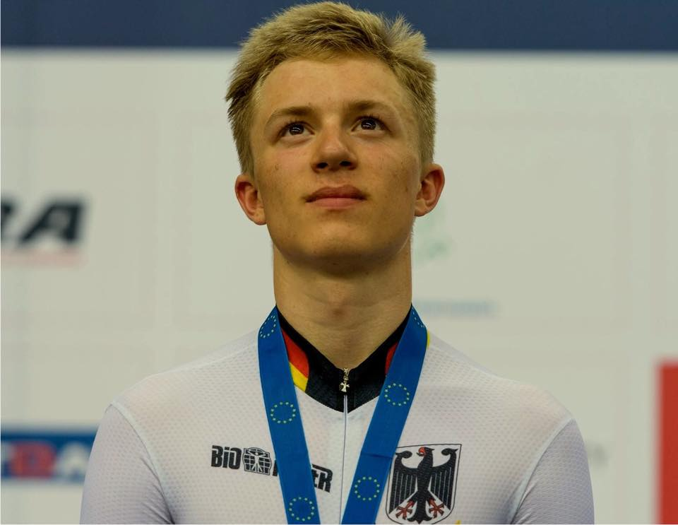 Marcel Franz, German cyclist, during the medal ceremony with his silver medal in scratch at the 2015 UEC Jun/U23 Track European Championships